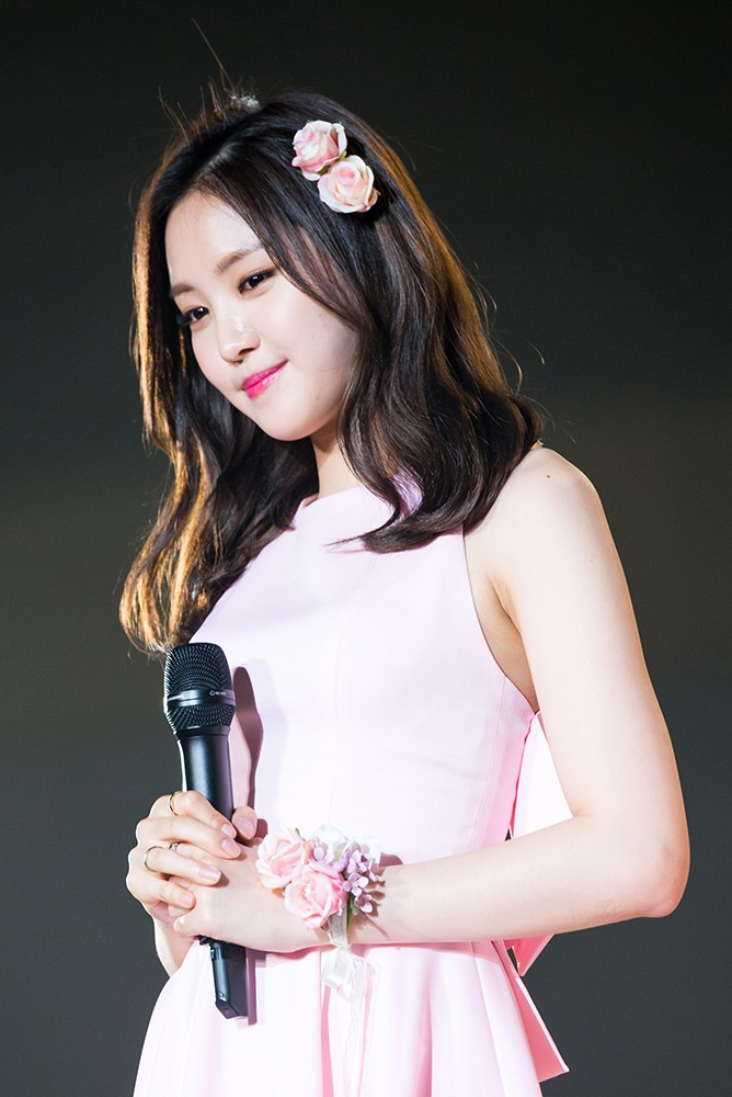 Son Na-eun at Girls Awards Girls Collection in Osaka, 1 November 2015